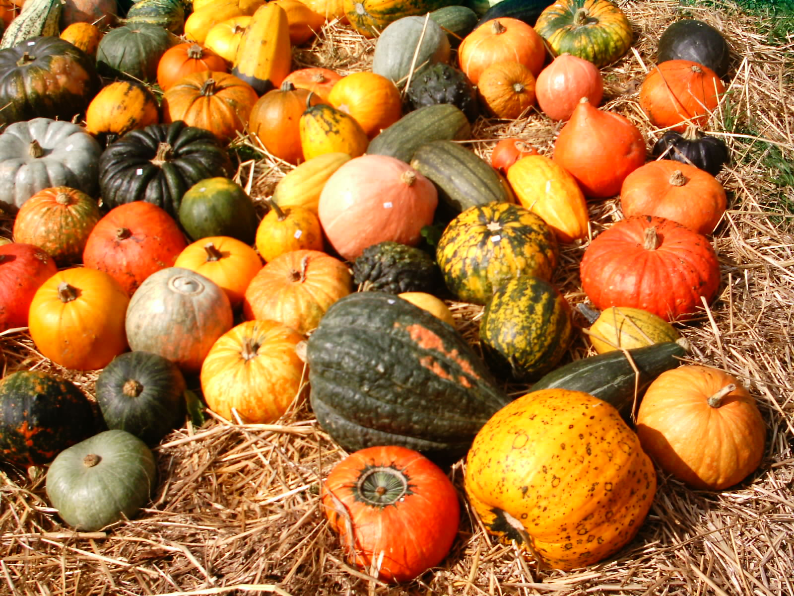 Pumpkins at a „Flohmarkt“